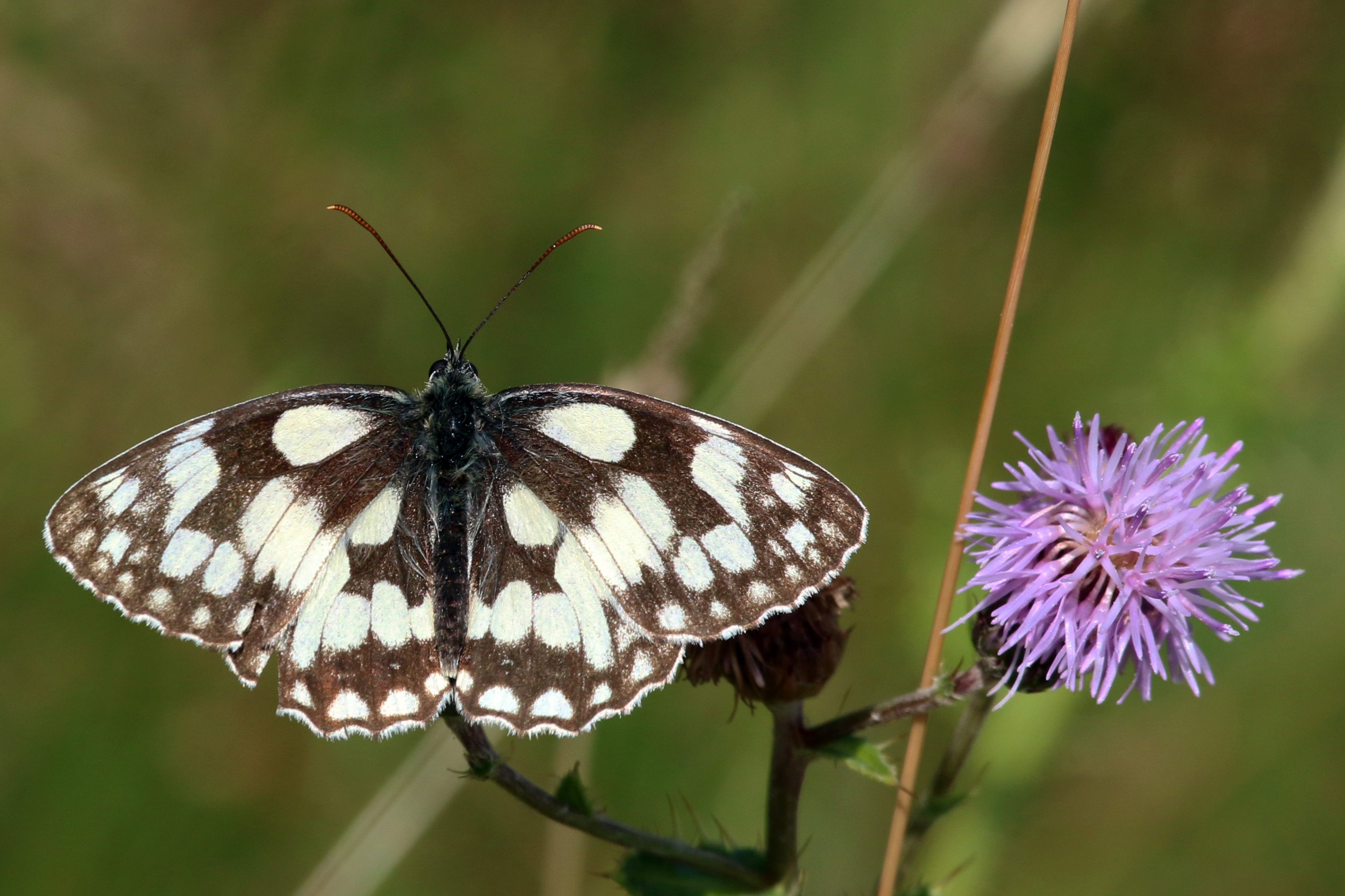 Marbled white butterfly (Melanargia galathea) female